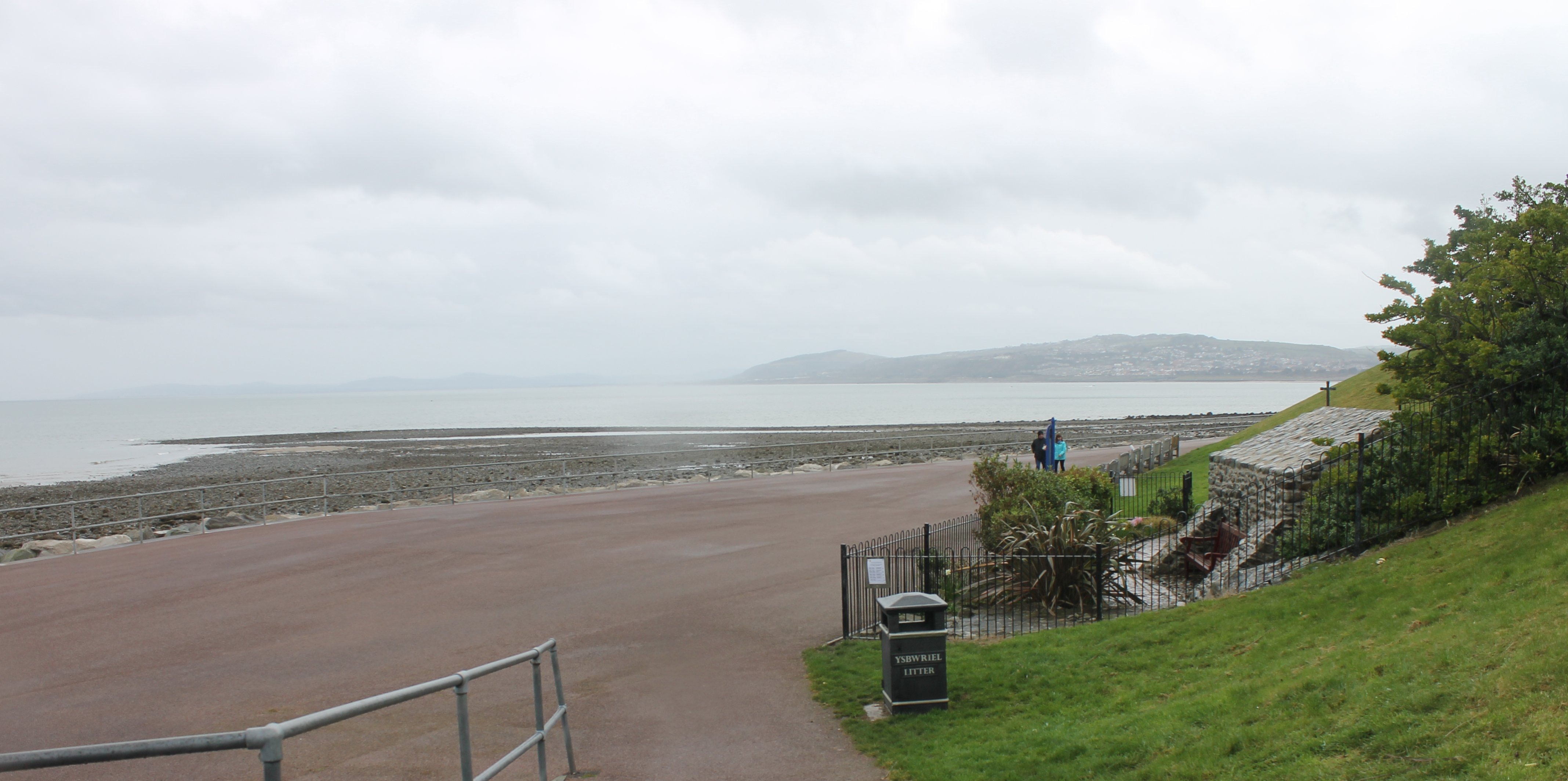 St Trillo's Church, Betws yn Rhos (Rhos-on-Sea), Llandrillo, Conwy Borough Council. Smallest church in Britain.